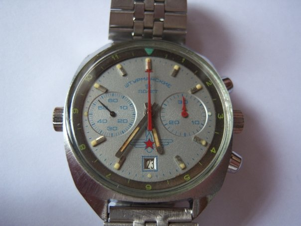 Shturmanskie